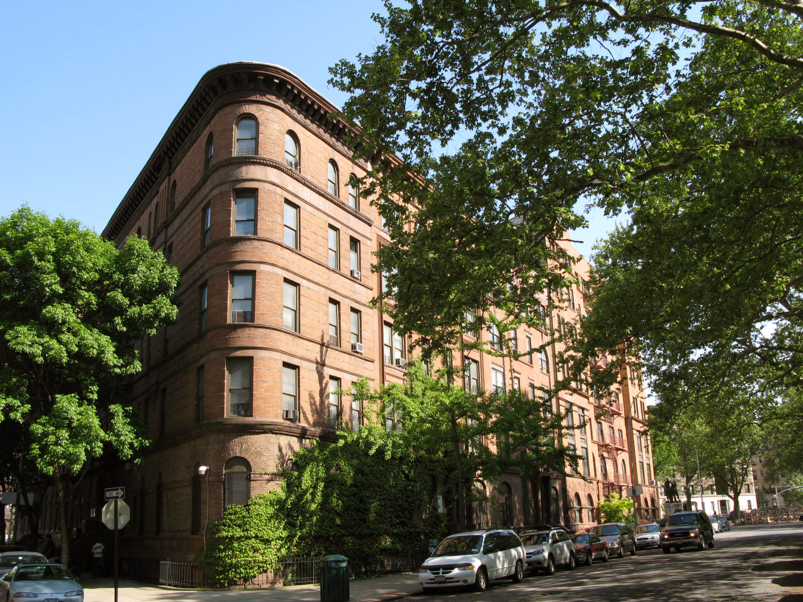 Harlem, New York City. Apartments along Morningside Avenue facing Morningside Park.